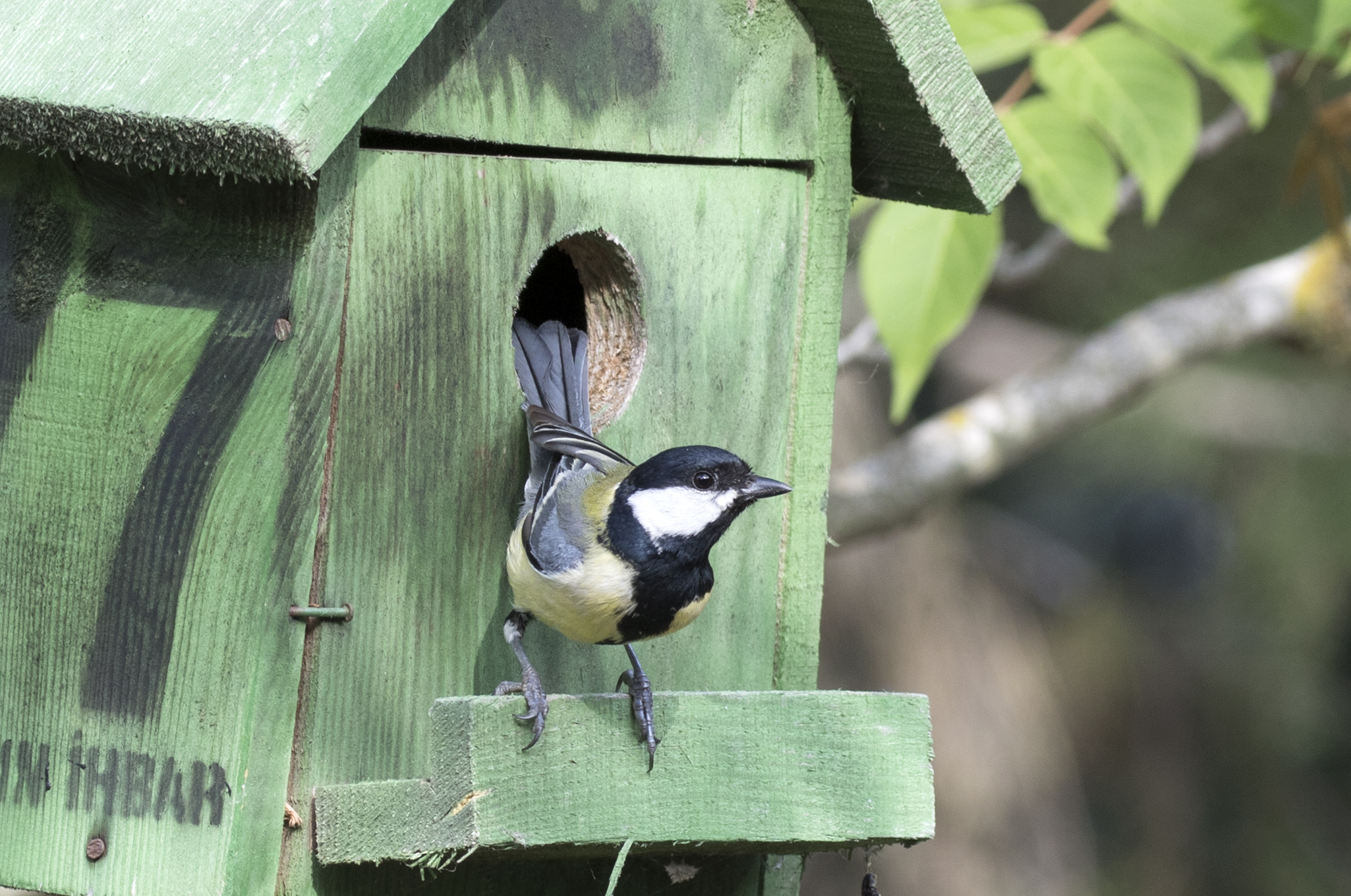 Great tit (Parus major). Balcalı, Adana - Turkey.